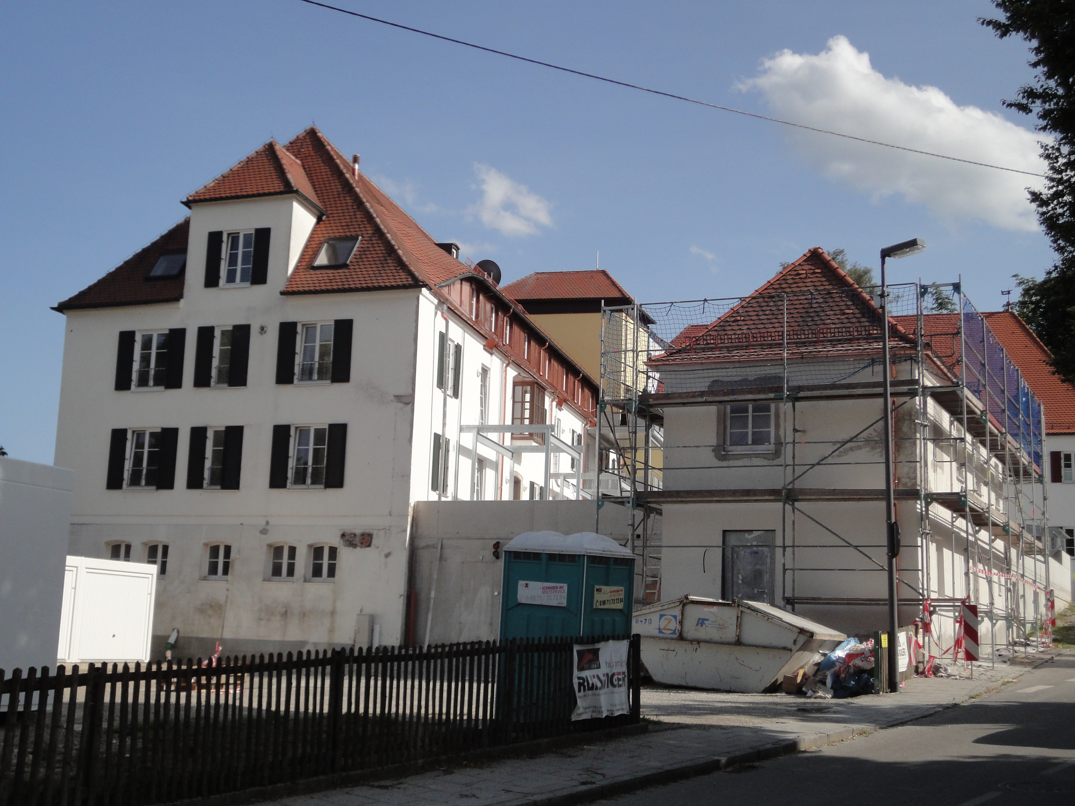 castle in Gersthofen-Batzenhofen